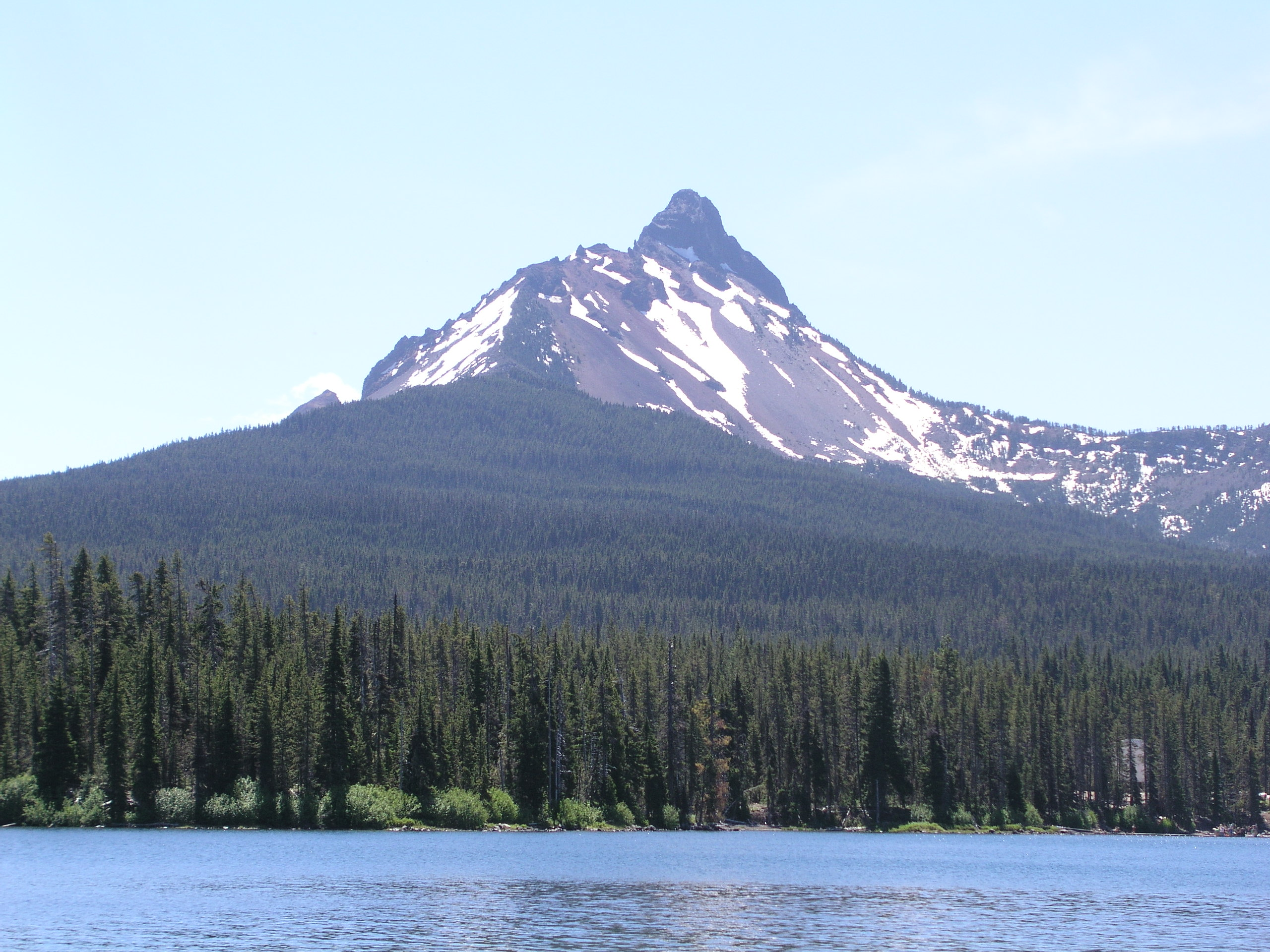 Big Lake and Mount Washington in the central Cascade Range, Oregon, United States